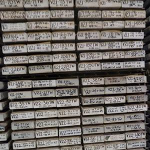 Core sample labels identify the exact spot on the sea floor where the sample was taken. Slight variations in location can make a significant difference in the chemical and biological composition of the sediment sample.